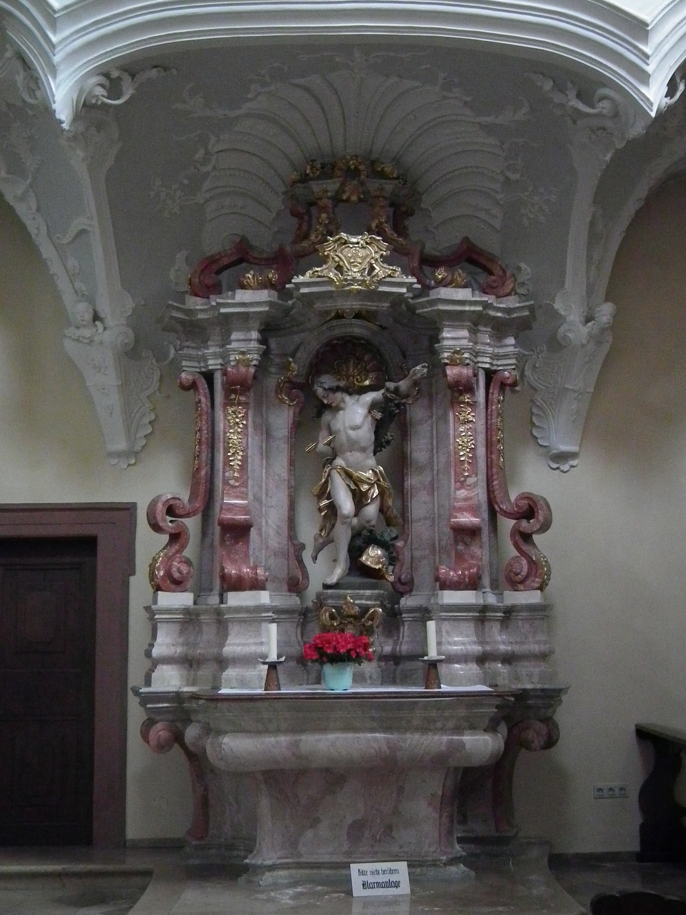 Church of the Holy Cross Native namePfarrkirche Heilig KreuzLocationGerlachsheim, Baden-Württemberg, GermanyCoordinates49° 34′ 47.32″ N, 9° 43′ 13.08″ E